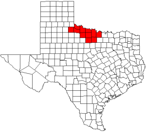 Map of Texas highlighting counties served by the Nortex Regional Planning Commission; created by User:Acntx.